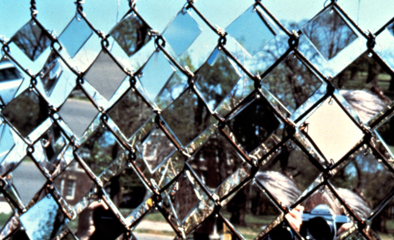 Detail image of site-specific installation by artist Merle Temkin: Mirror-Fence for Joanne, sited at Artpark in Lewiston, New York, United States; constructed from plexi-mirrors and chain-link fencing in 1981.